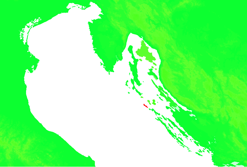 Island of Croatia Croatia - Premuda.PNG